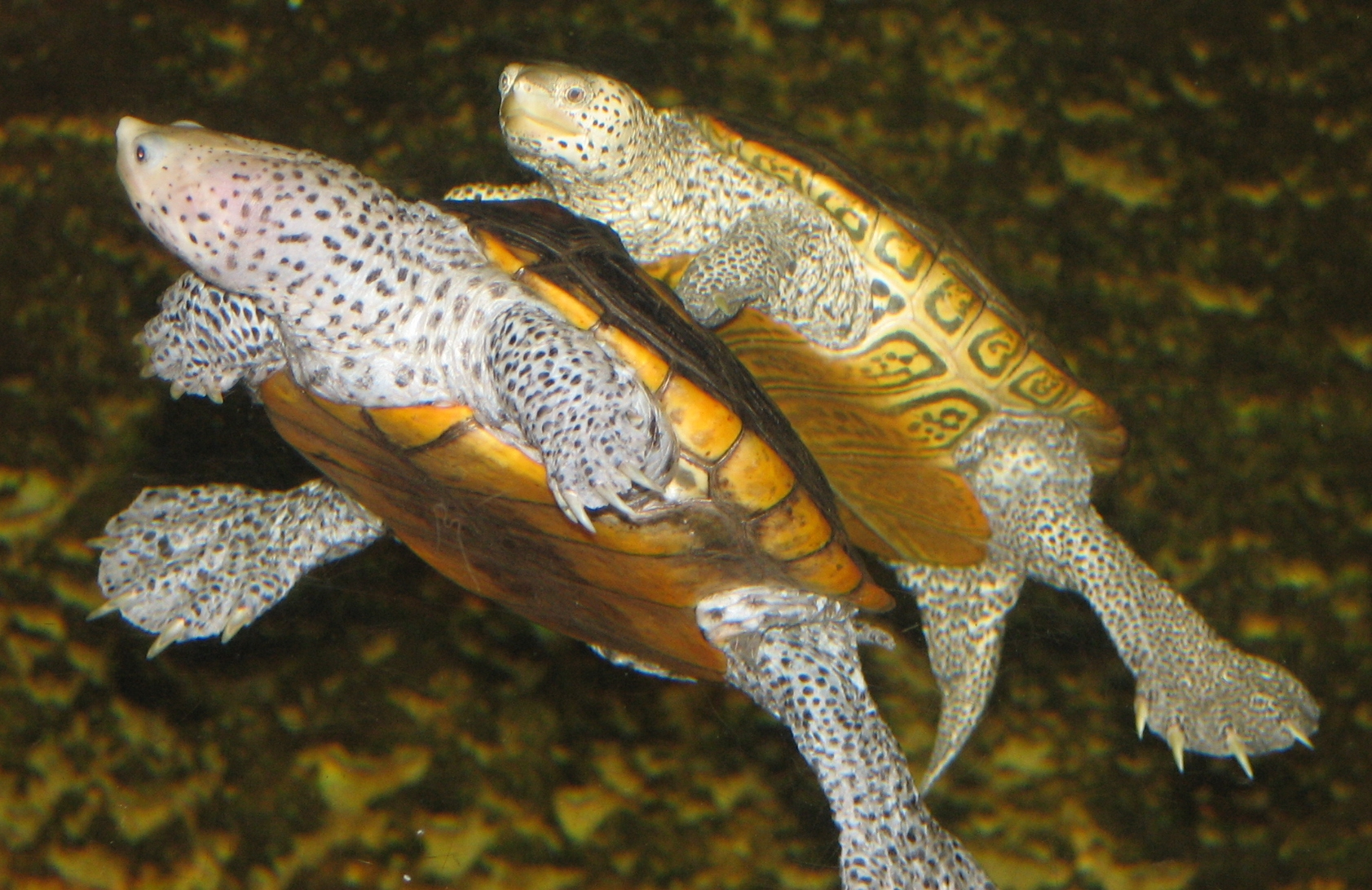 Diamondback Terrapins - Malaclemys terrapin